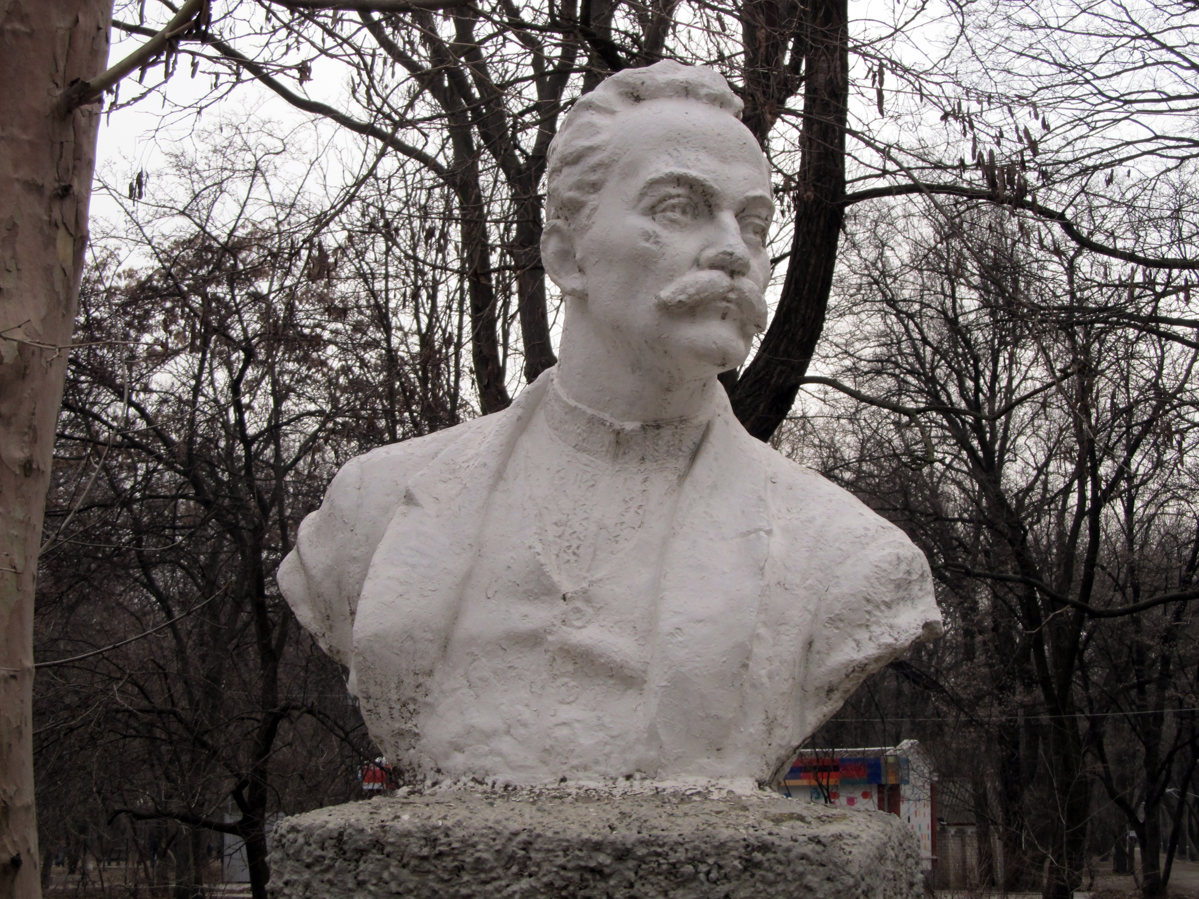 Bust of Ivan Franko in Gorky Park (Melitopol, Zaporizhia Oblast, Ukraine).